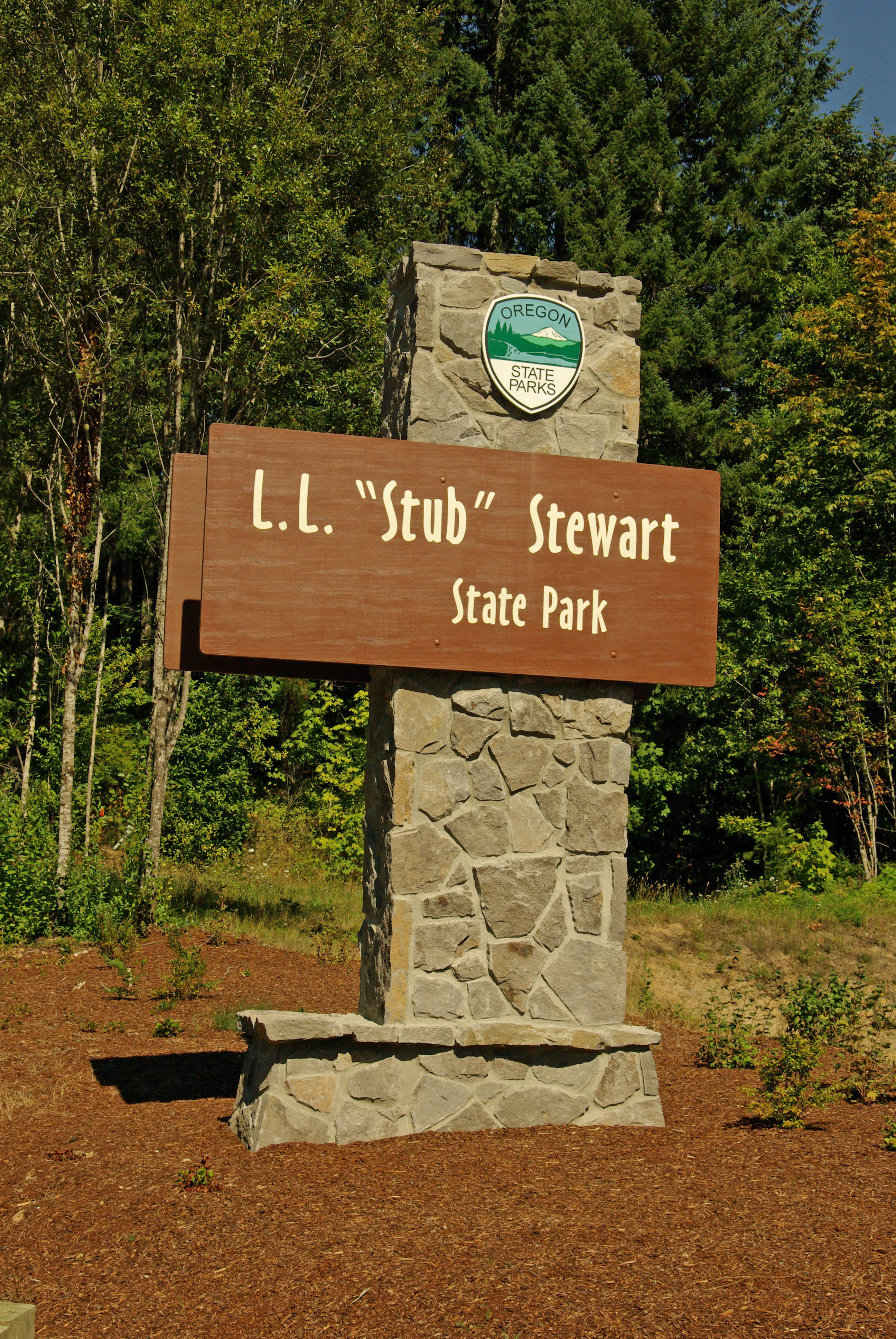 Entrance sign to L.L. "Stub" Stewart Memorial State Park